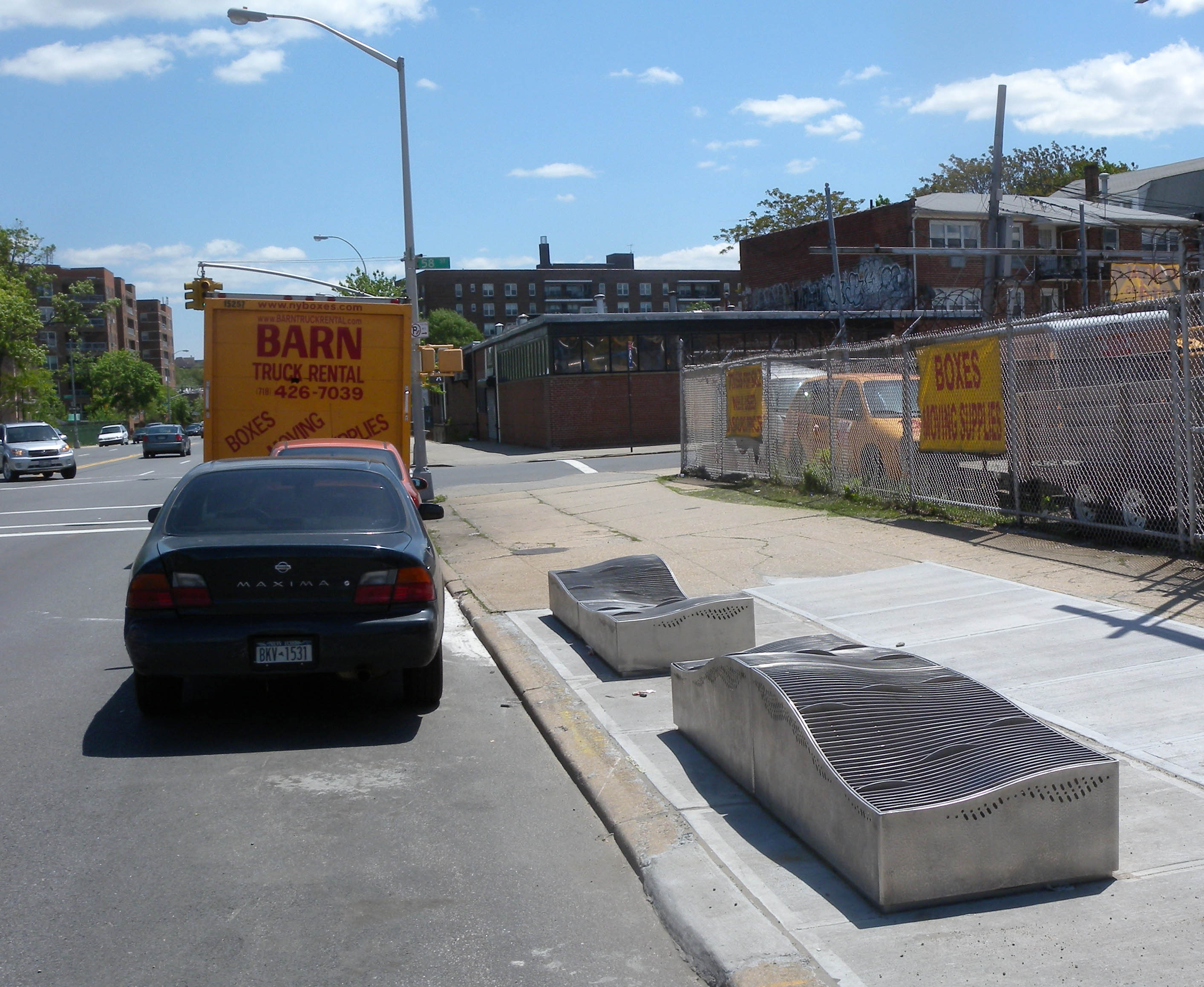 Looking southeast along Broadway at 58th Street and vents for IND Queens Boulevard Line subway on a sunny midday.